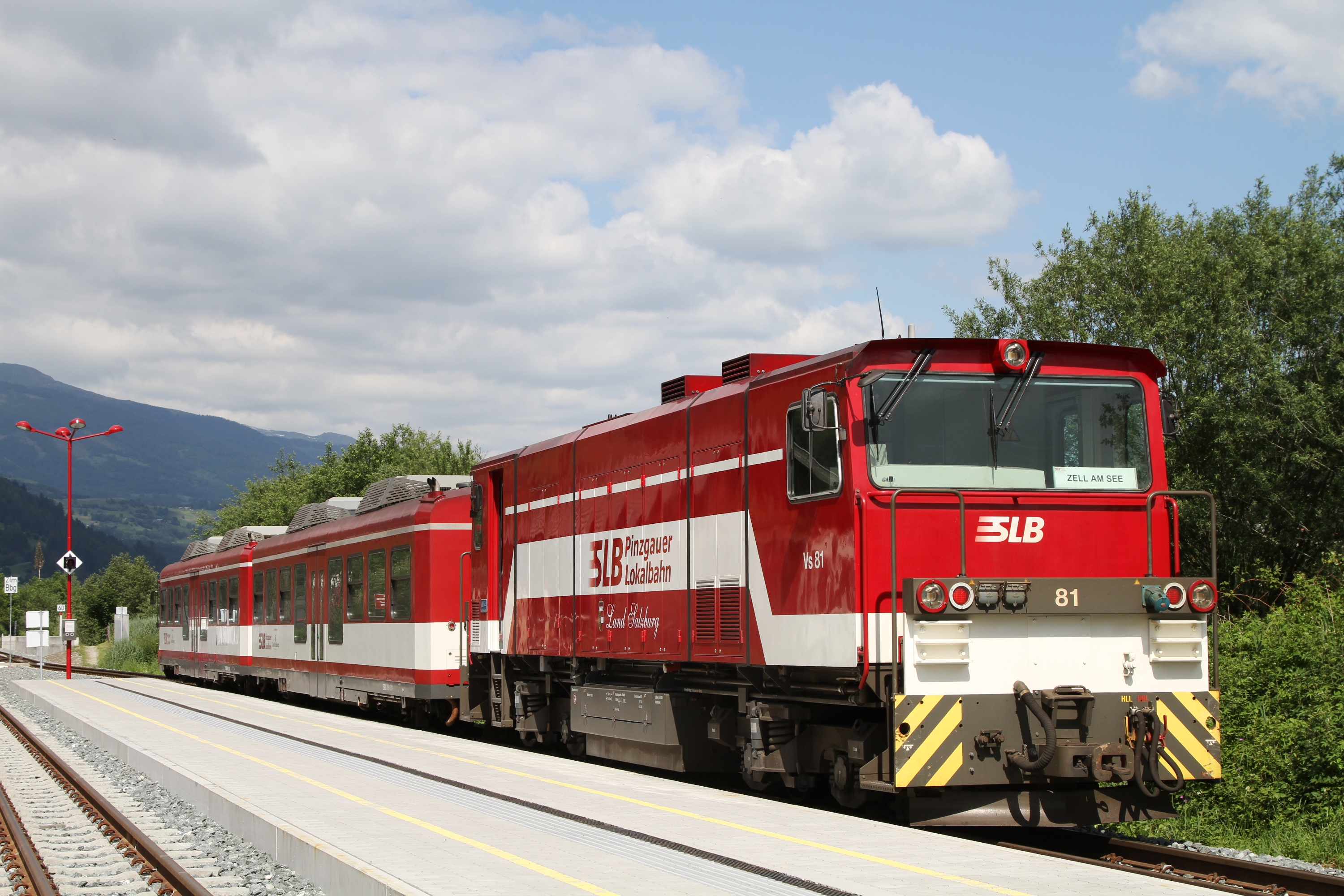 A new push and pull trainset of the Pinzgauer Lokalbahn with Gmeinder locomotive Vs 81 at the temporary terminus Bramberg.